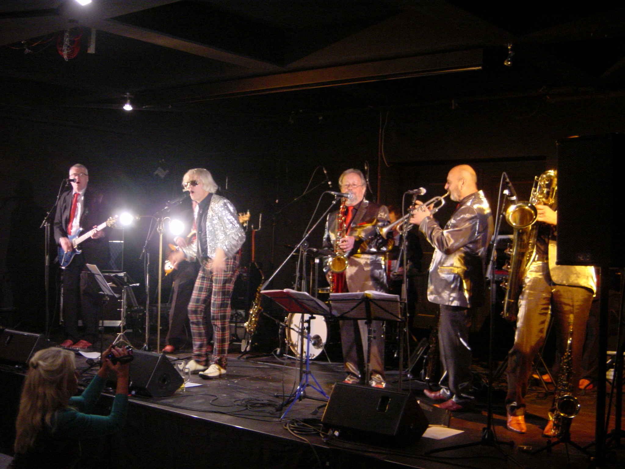 Alf Mahlo with Jackpot group on stage in Pirna, Germany